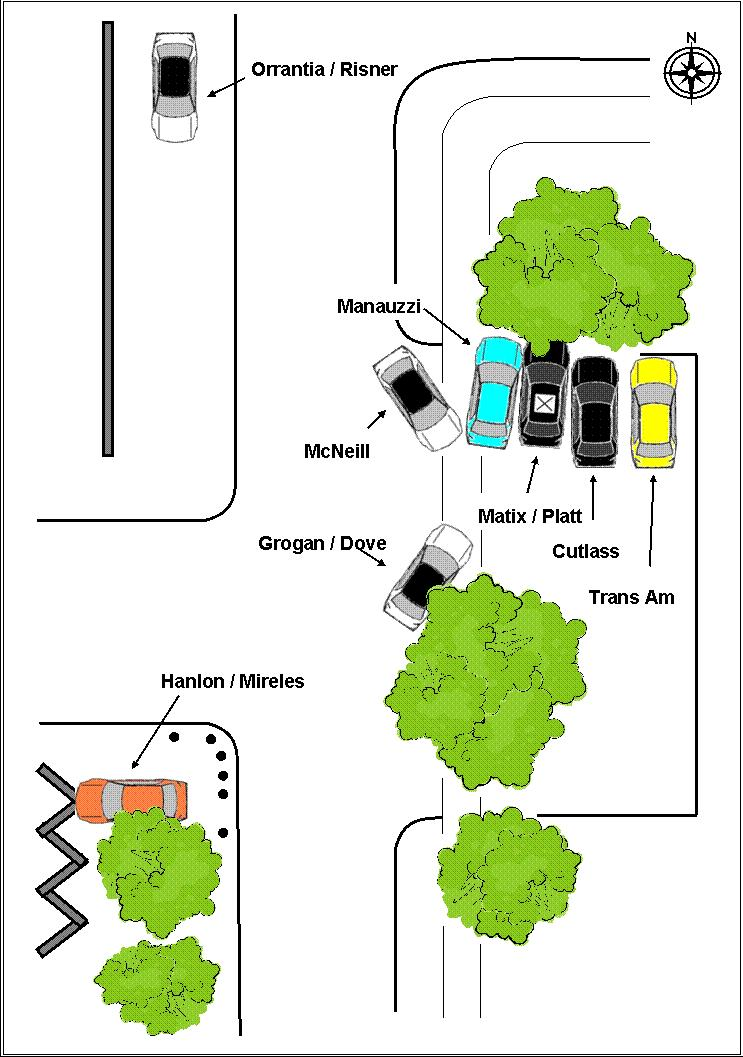 Relative positions of FBI agents' and suspects' vehicles after felony car stop during the 1986 FBI Miami shootout. Illustration is not to scale.